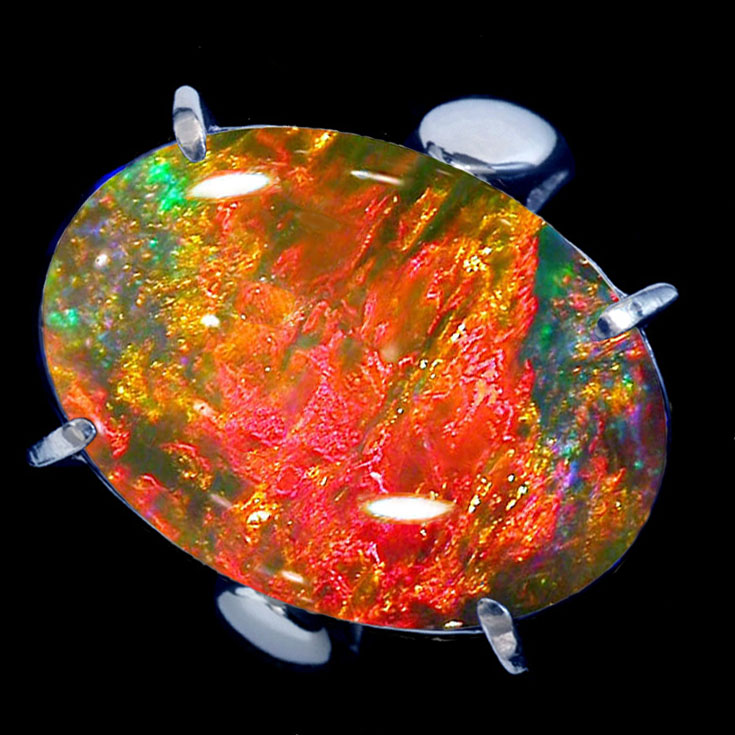 My opal ring